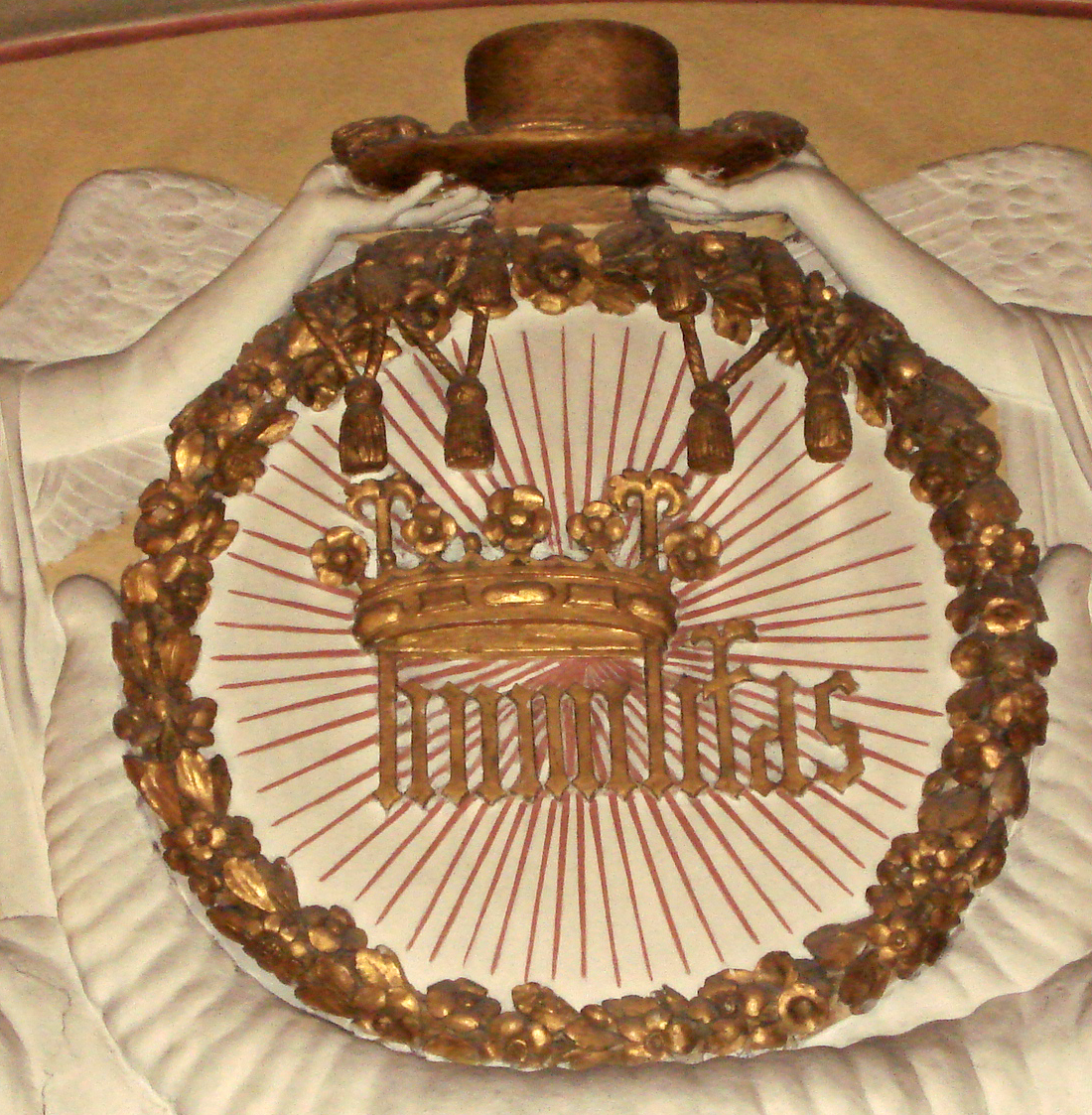 Cathedral in Milan, Italy. Coat of arms of the House of Borromeo, in the Scurolo di san Carlo Borromeo ("Saint Charles Borromeo's crypt"). Picture by Giovanni Dall'Orto, January 29 2007.